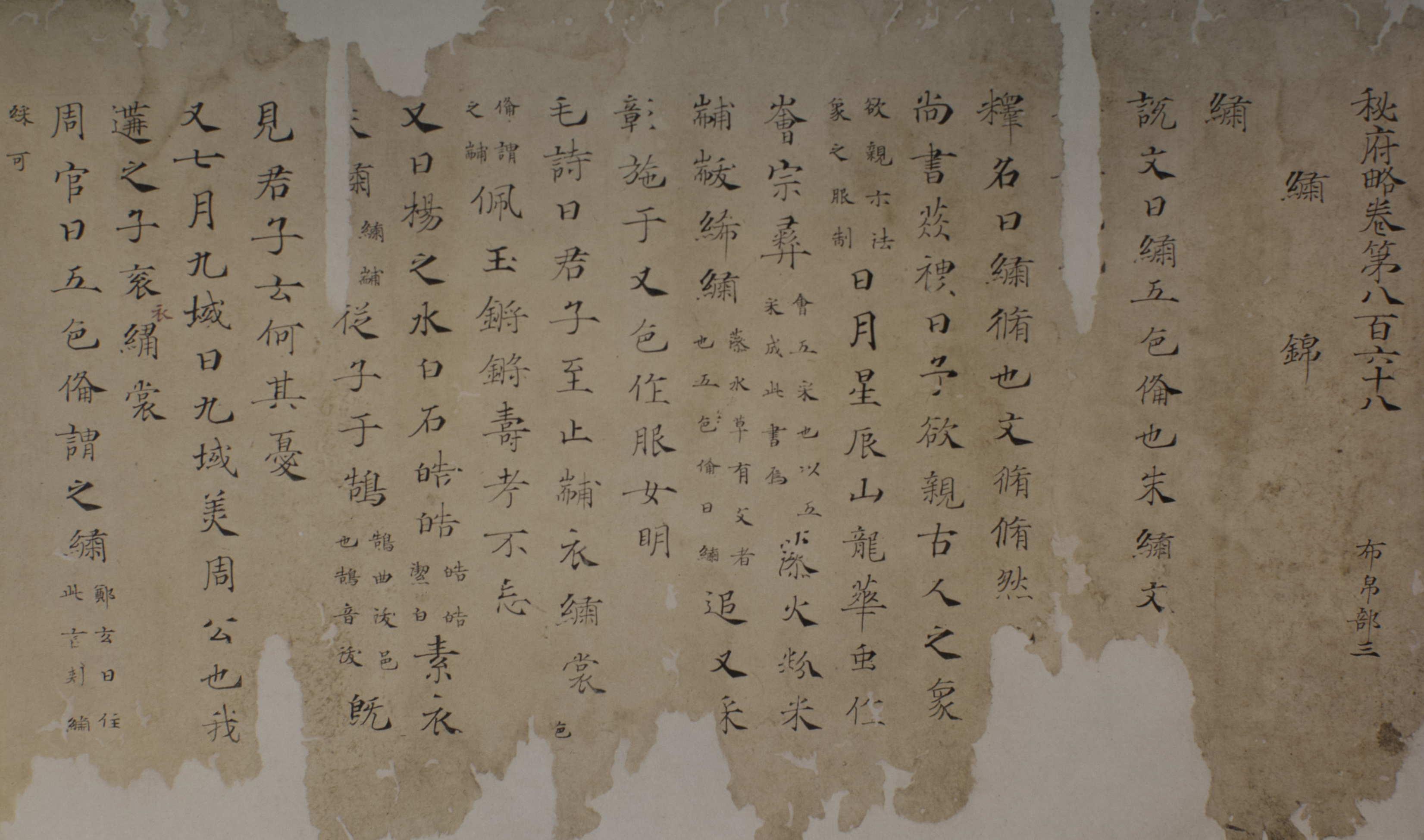 Oldest Japanese proto-encyclopedia (831); National Treasure of Japan